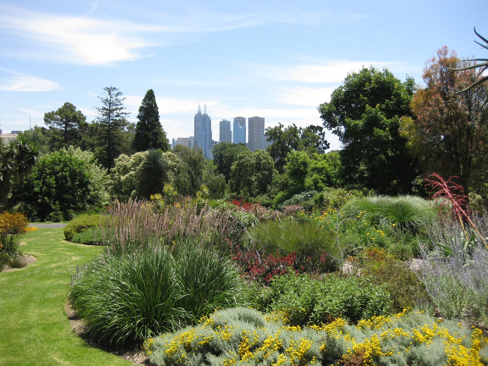 Photographed at the Royal Botanic Gardens Melbourne (Australia) in December